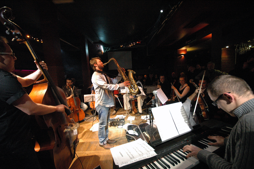 Polish jazz ensemble Alchemik performing with strings group at jazz club Tygmont in Warszawa, Poland